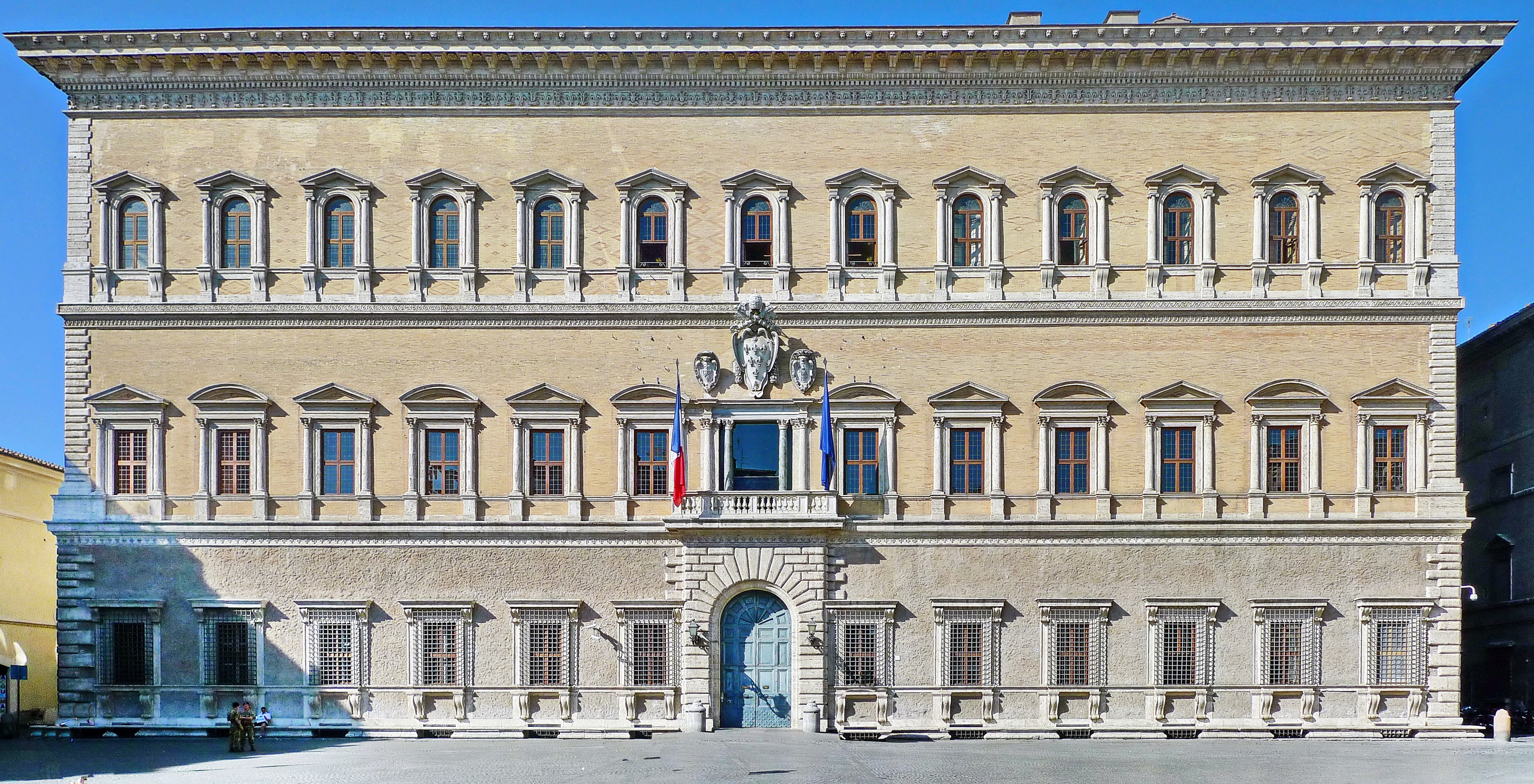 Palazzo Farnese (Rome), façade